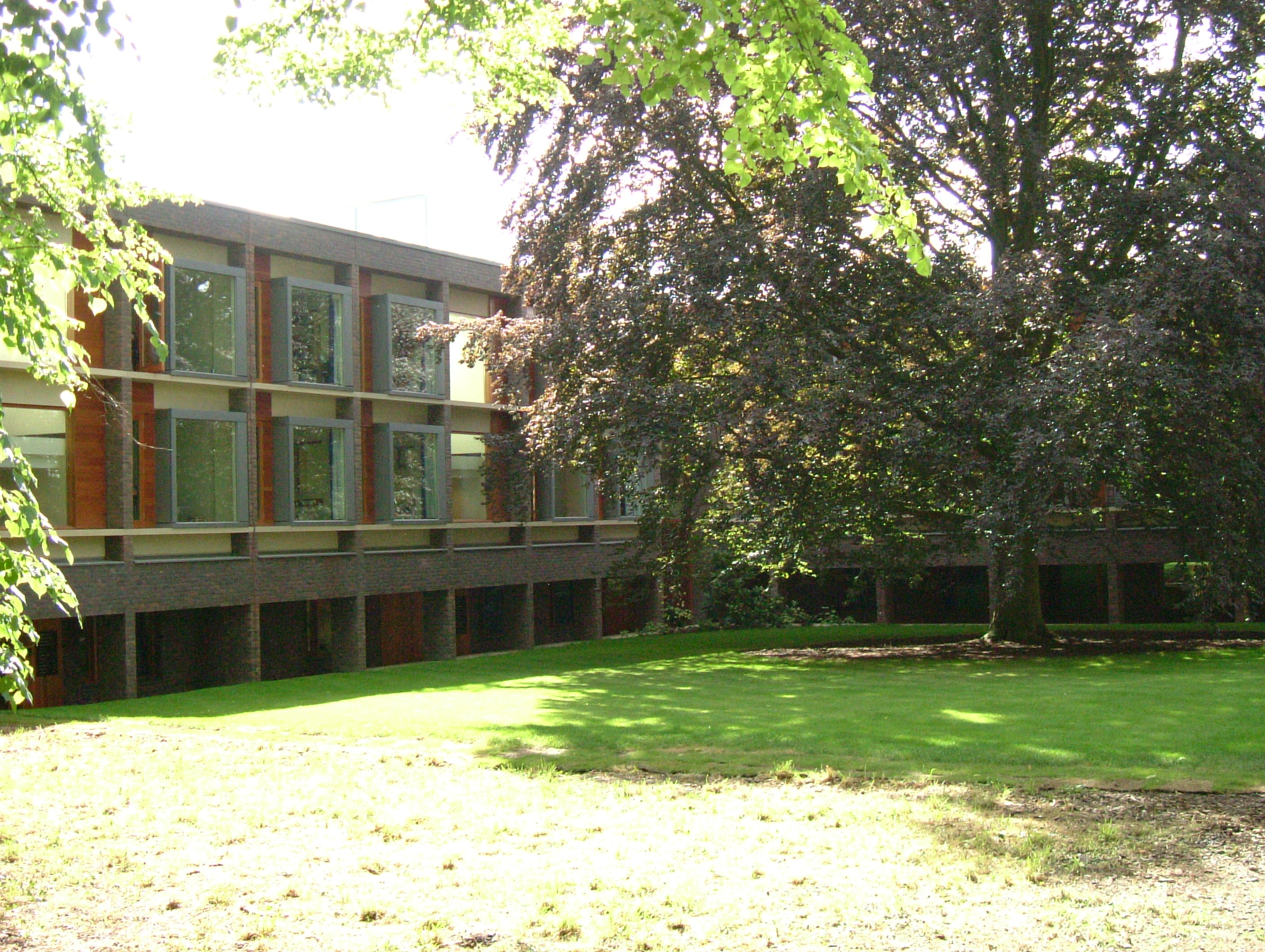 Taken by Satinder Singh New Court (description from User:SS1981/Images/Fitzwilliam_College) Fitzwilliam College, Cambridge (additional description by JackyR)